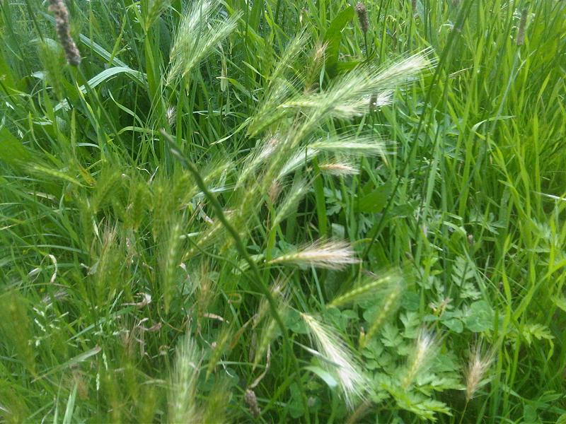 Barley (Hordeum vulgare) in Putney Heath Common, England.